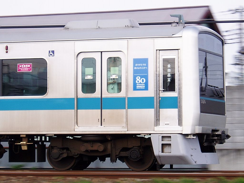 Odakyu Electric Railway Company, EMU Type 3000.